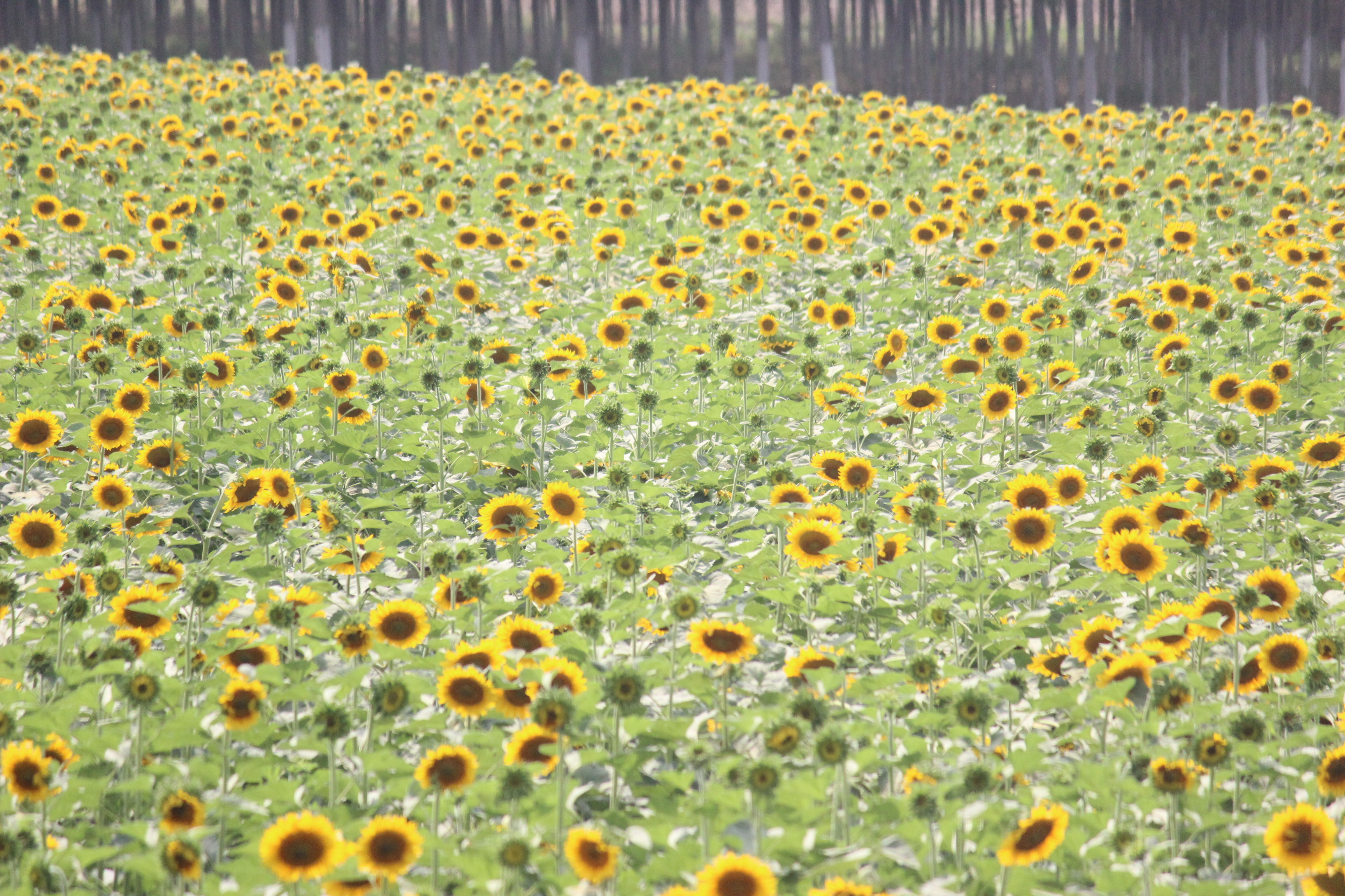 Sunflower filed Punjab